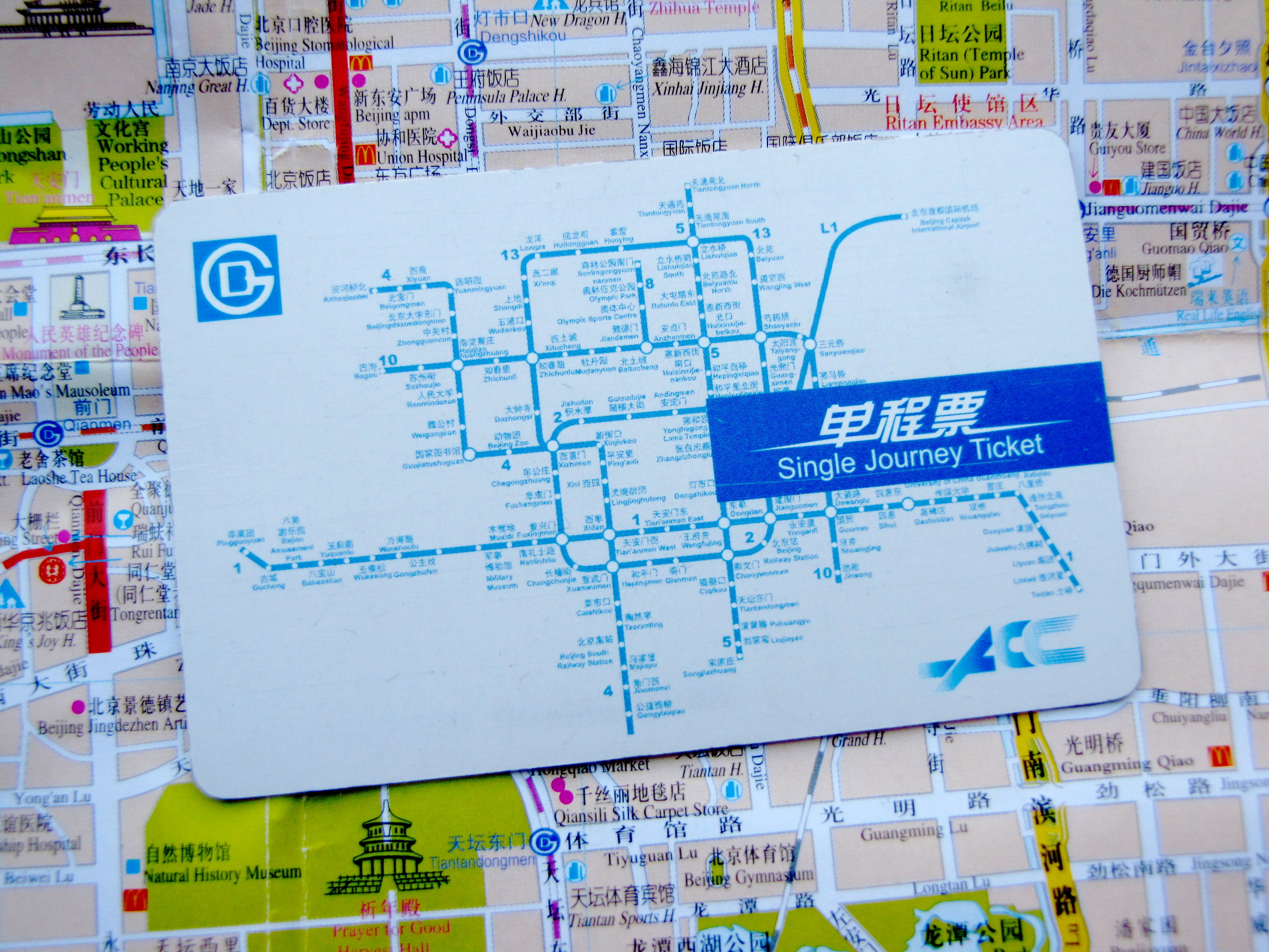 Beijing subway single journey ticket-card with map of subway lines, 2009